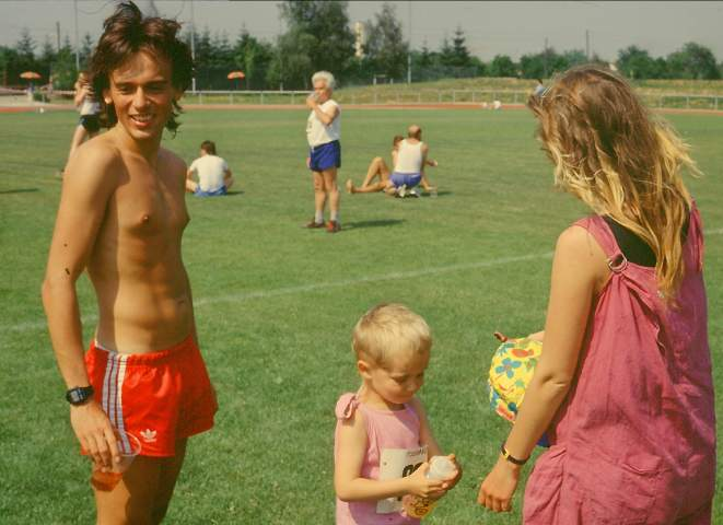 Jens Lukas - German ultra-runner - in 1991 still member of "Karlruher Plattfüss" (Karlsruhe flatfeet)